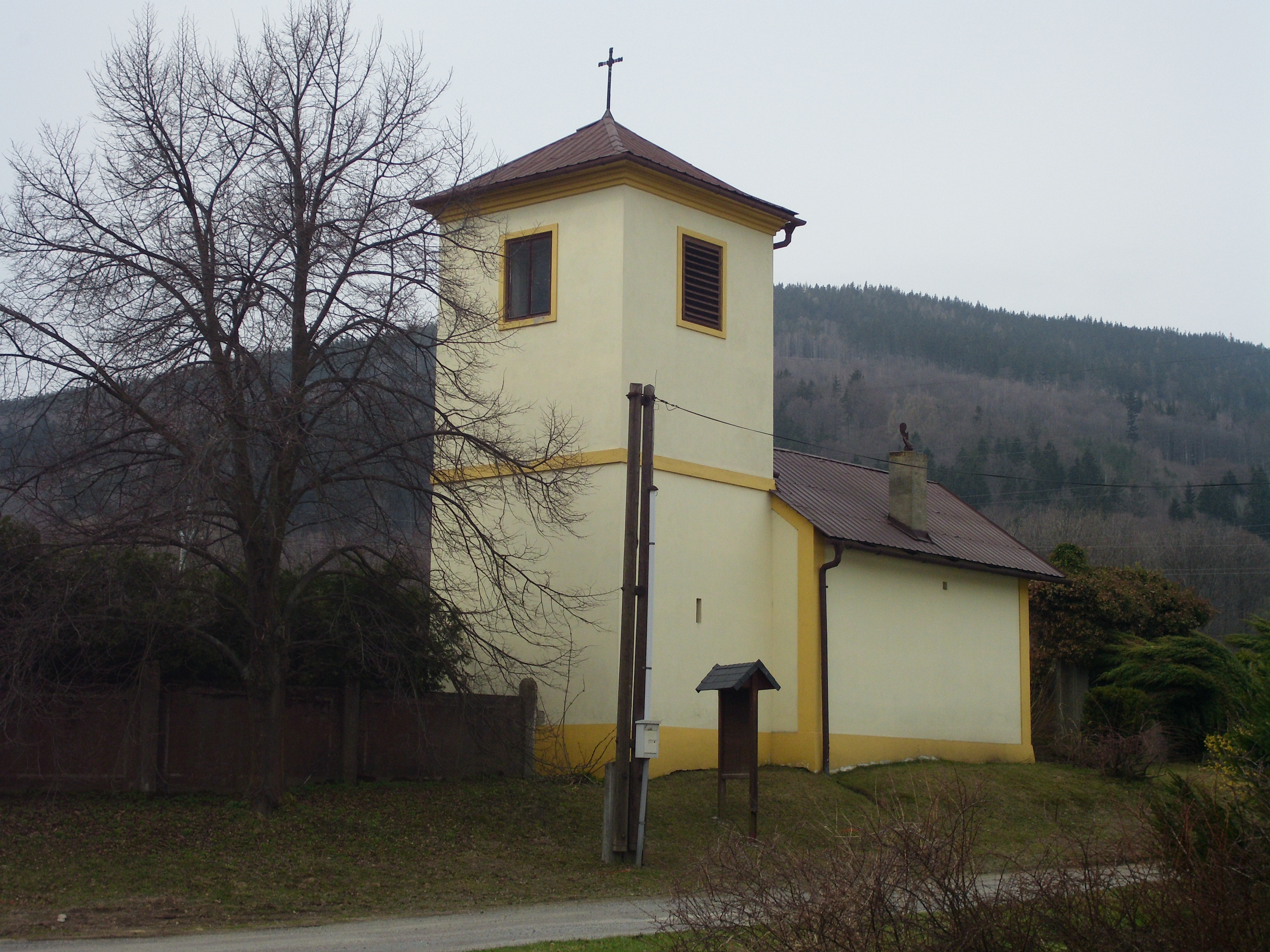 Church in Rejhotice (part of Loučná nad Desnou), Czech Republic